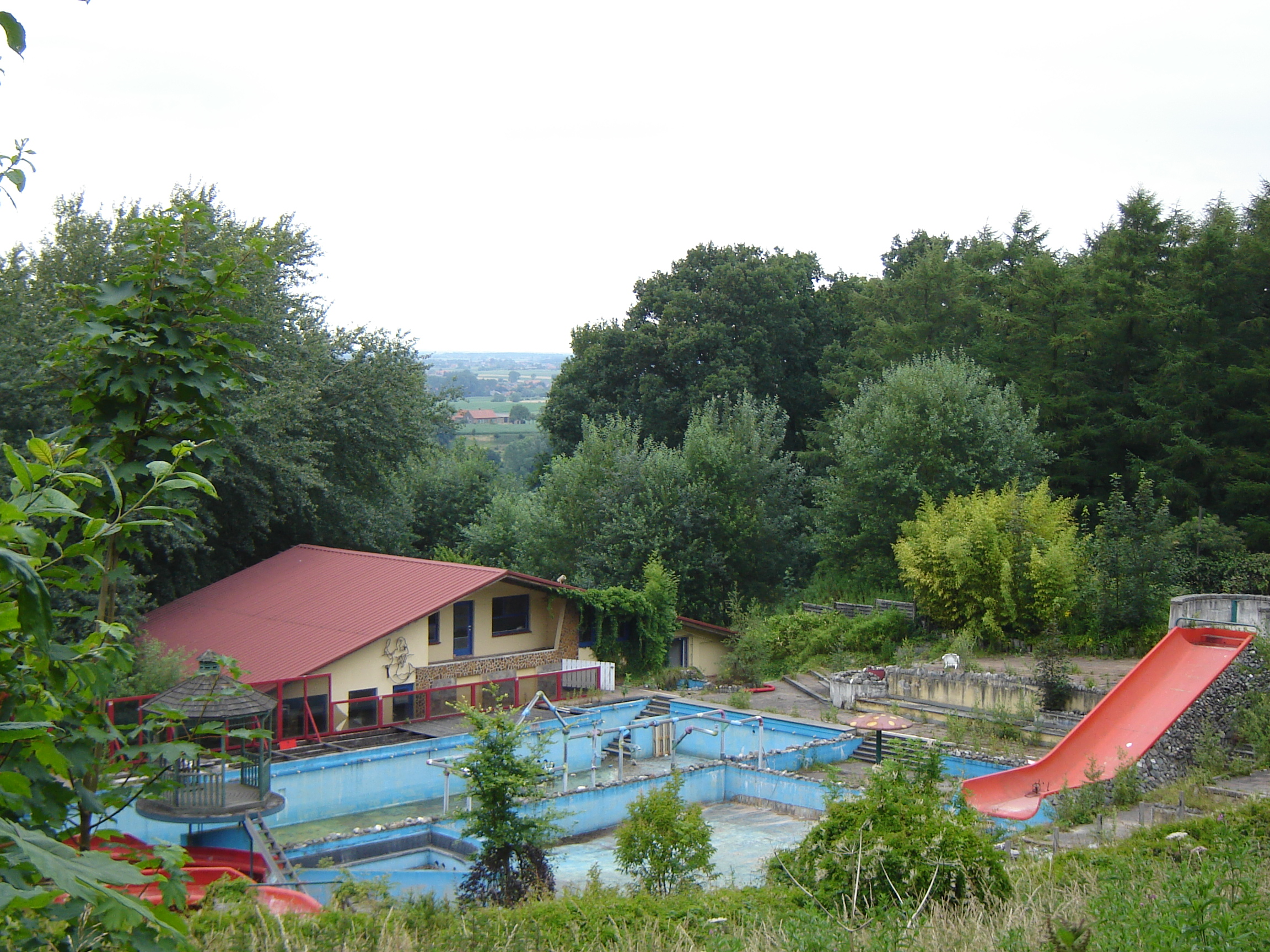 Former recreation park and swimming pool "Kosmos" on the Rodeberg hill in Westouter, Heuvelland, West Flanders, Belgium.